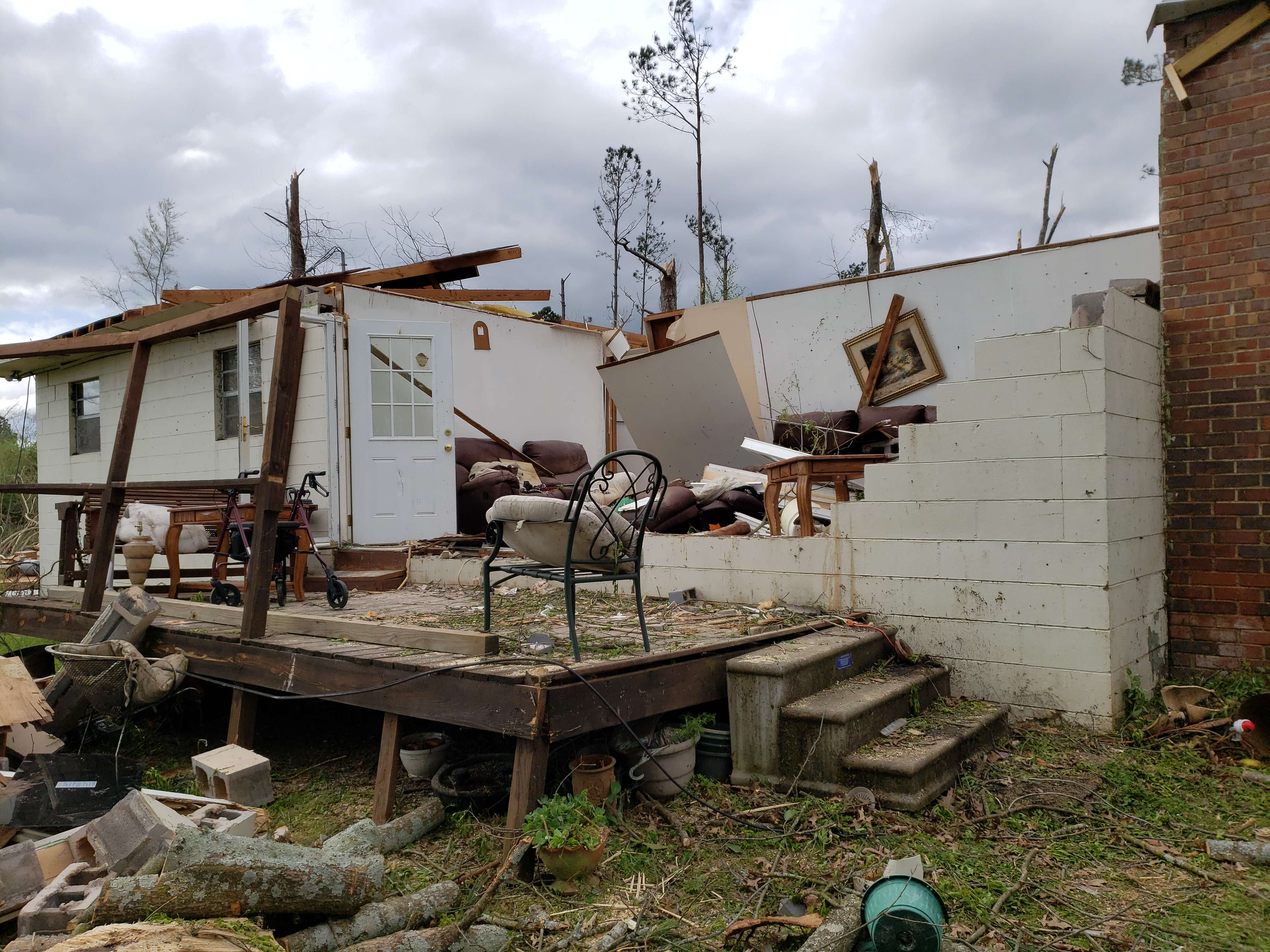 EF2 damage to a house in Sumac, Georgia.